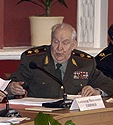 Oryol. Makhmut Gareev (a Russian General of the Army, a historian, and a military scientist).